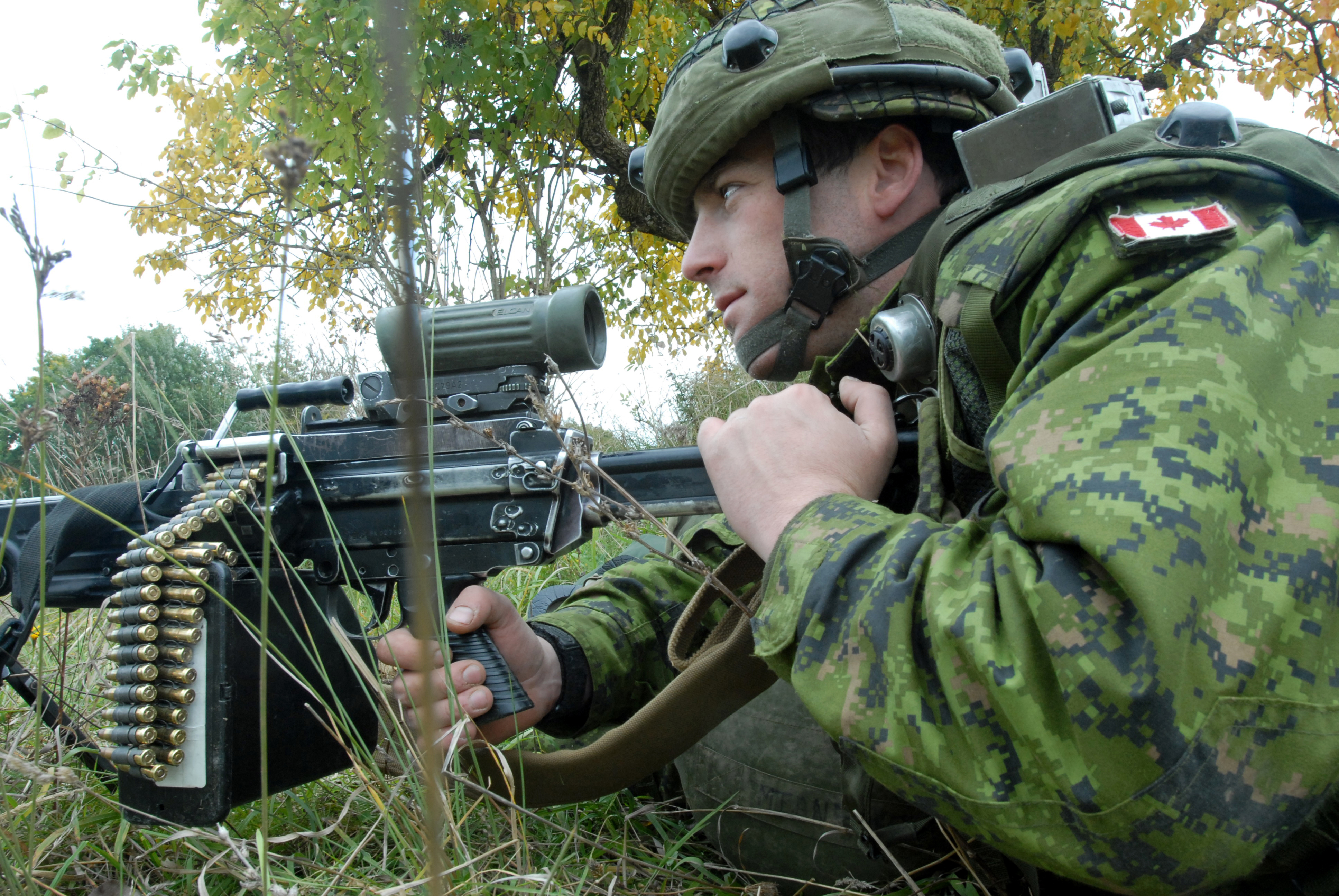 A Canadian soldier with 4th platoon, Hotel Company, 2nd Battalion, Royal Canadian Regiment, provides security with a C9 weapon during training at the Joint Multi-National Readiness Center, near Hohenfels, Germany, Sept. 30, 2008. The soldiers are as part of America, Britain, Canada, Australia and New Zealand's interoperability test Cooperative Spirit 2008.